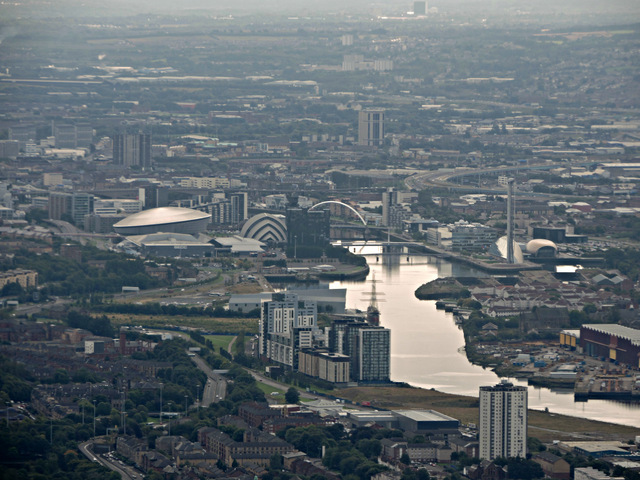 Glasgow and the Clyde from the air